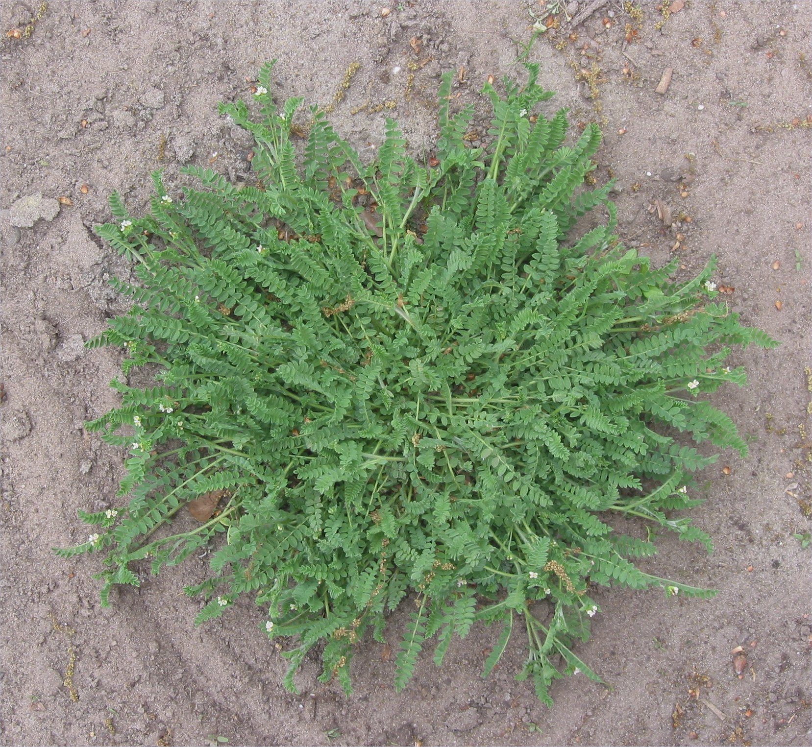 Ornithopus perpusillus